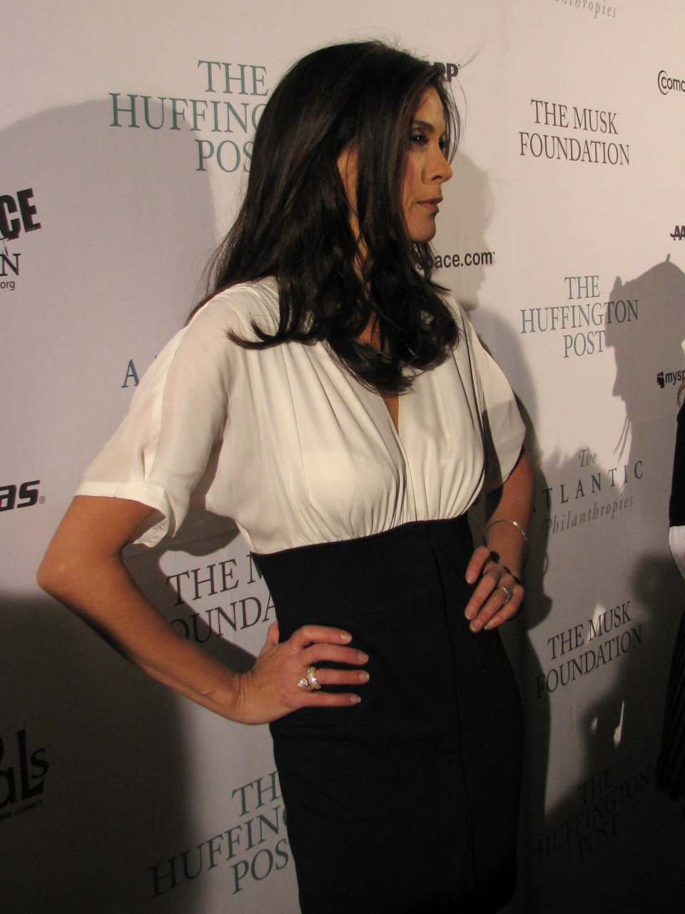 Teri Hatcher. Huffington Post Pre-Inaugural Ball.